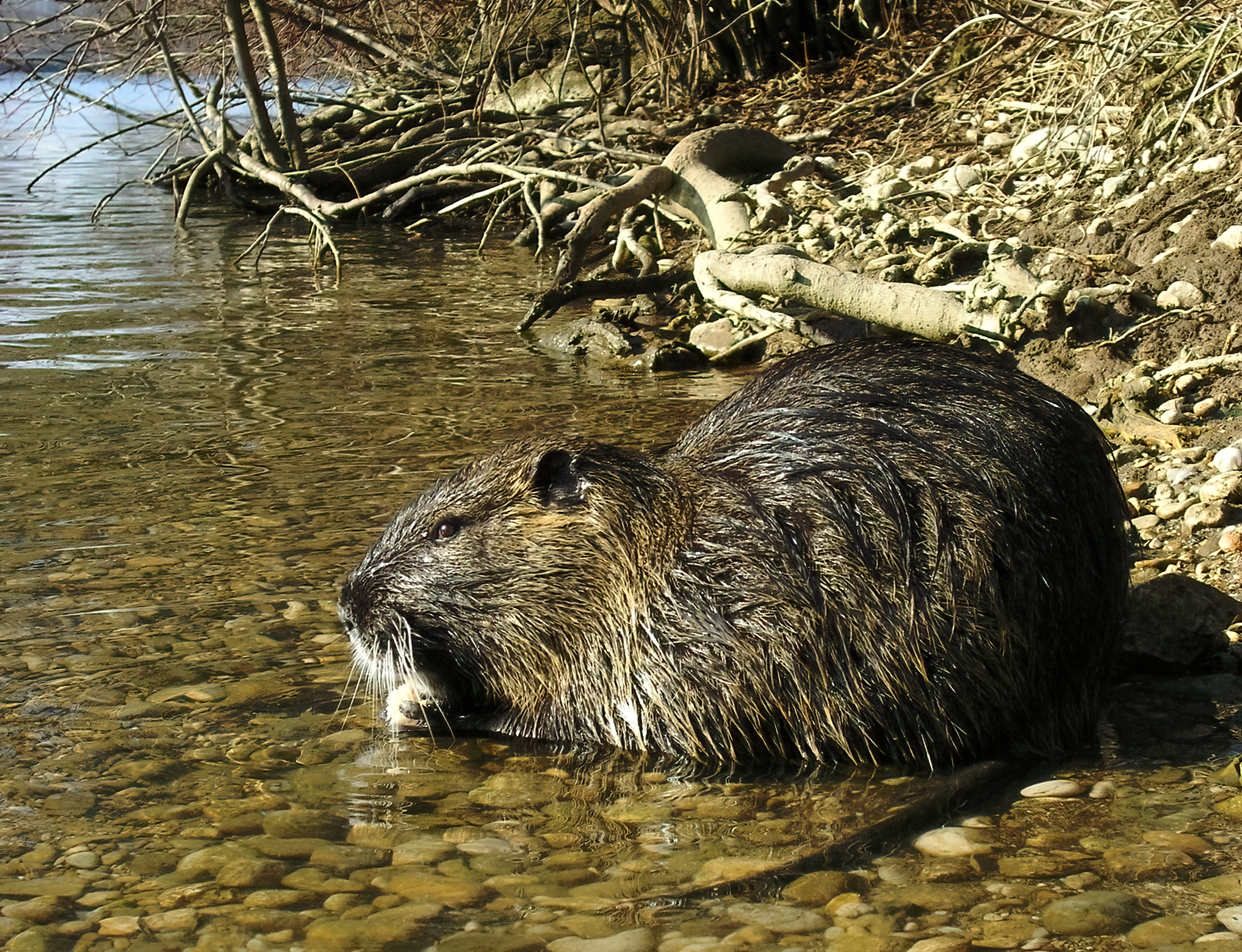 Nutria - (Latin name: Myocastor coypus) in its habitat - river Ljubljanica, Slovenia.